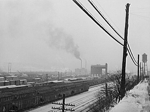 View of Conway Yard, Conway, Pennsylvania, USA. Cropped photo.